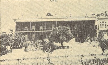 Rest area on the Vasconcelos Porto Sanatorium, near the town of São Brás de Alportel, in Portugal. This sanatorium was used by railway workers afflicted with tuberculosis. This image was published on the Gazeta dos Caminhos de Ferro magazine no. 1061, of the 1st March 1932, and scanned by the Hemeroteca Municipal de Lisboa.